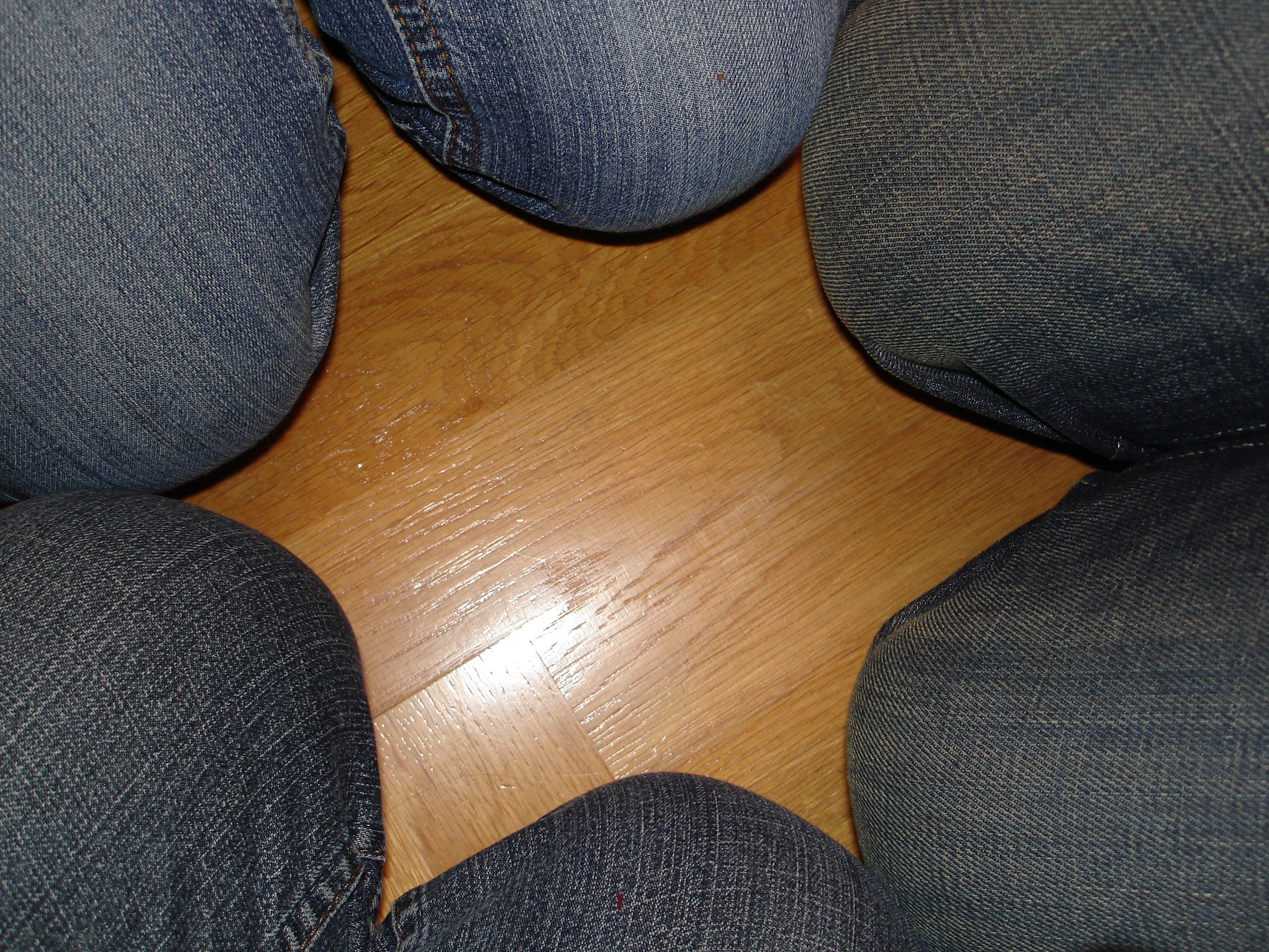 Star illusion with 6 knees in jeans